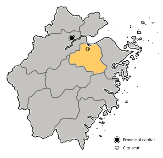 The prefecture-level city of Shaoxing is highlighted on this map of Zhejiang province, People's Republic of China.